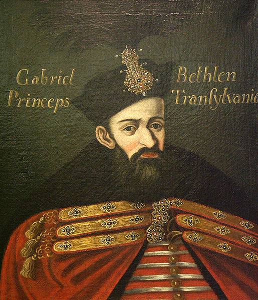 Gábor Iktári Bethlen (1580-1629), prince of Transylvania and king of Hungary (August 1620 - December 1621)